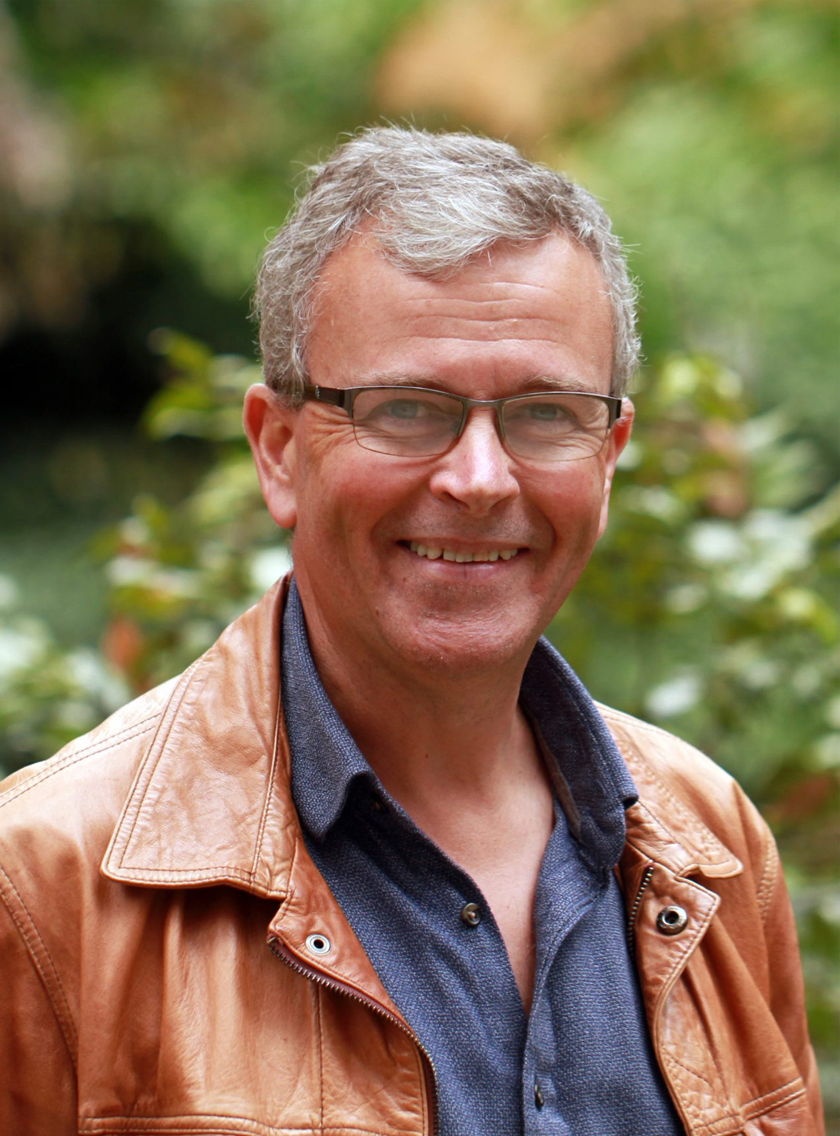 Professor Justin Marshall, neuro-ecologist